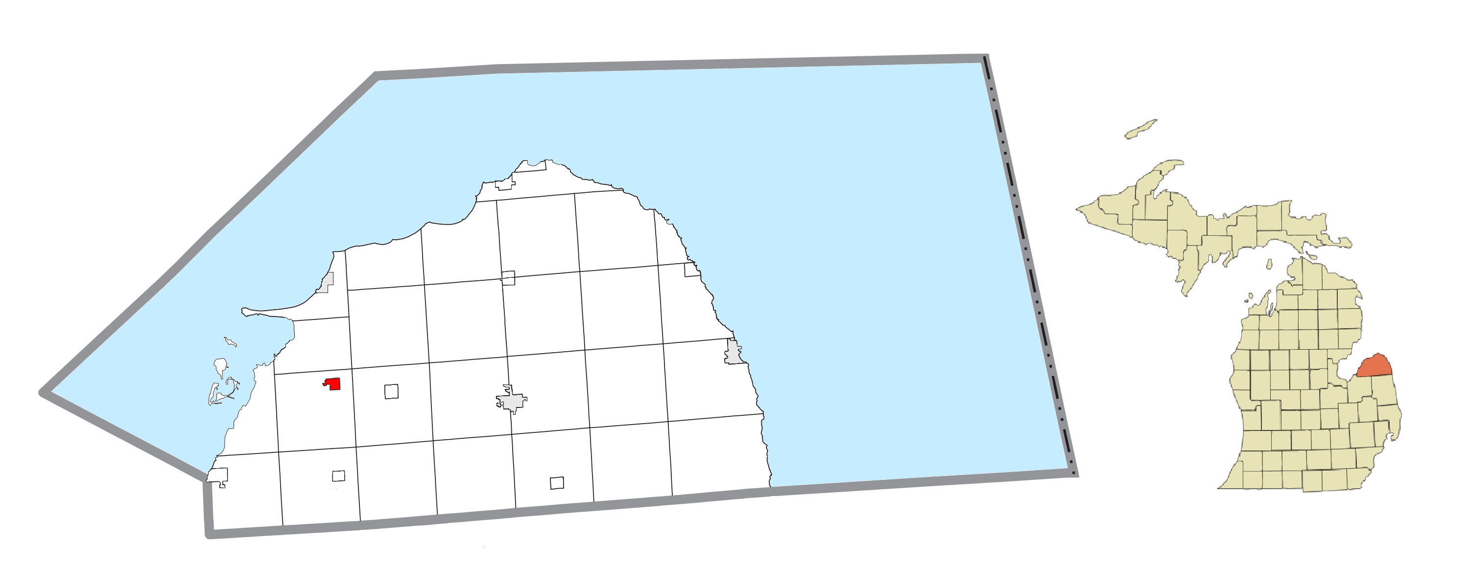 Pigeon, MI